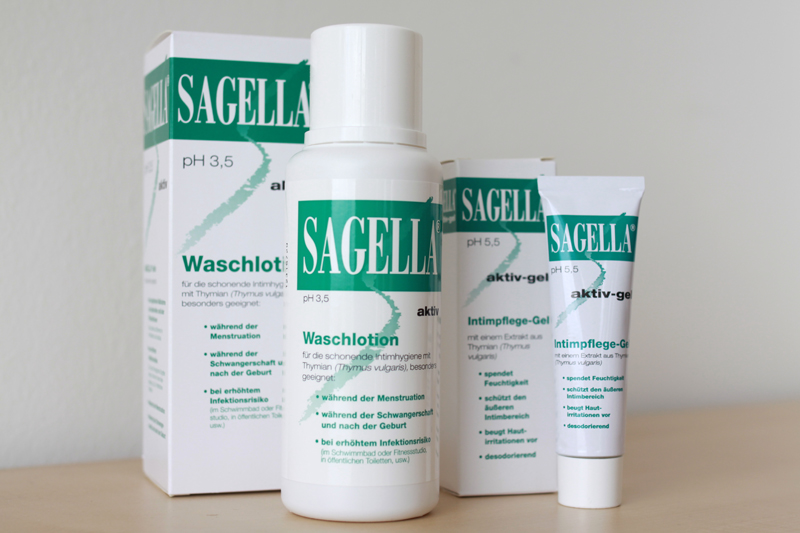 Sagella: feminine hygiene